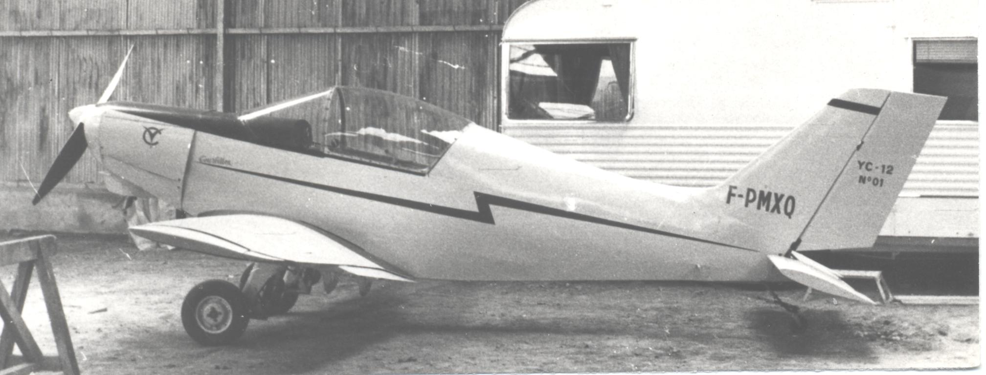 Chasle YC-12 Tourbillon prototype at Chavenay-Villepreux aurfield near Paris